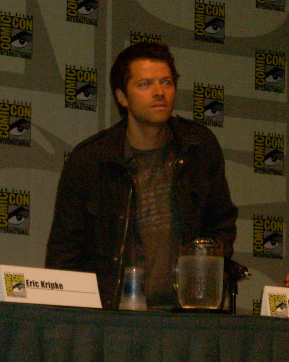 Actor Misha Collins – Comic-Con 2009 - "Supernatural" Panel - San Diego - July 26, 2009.